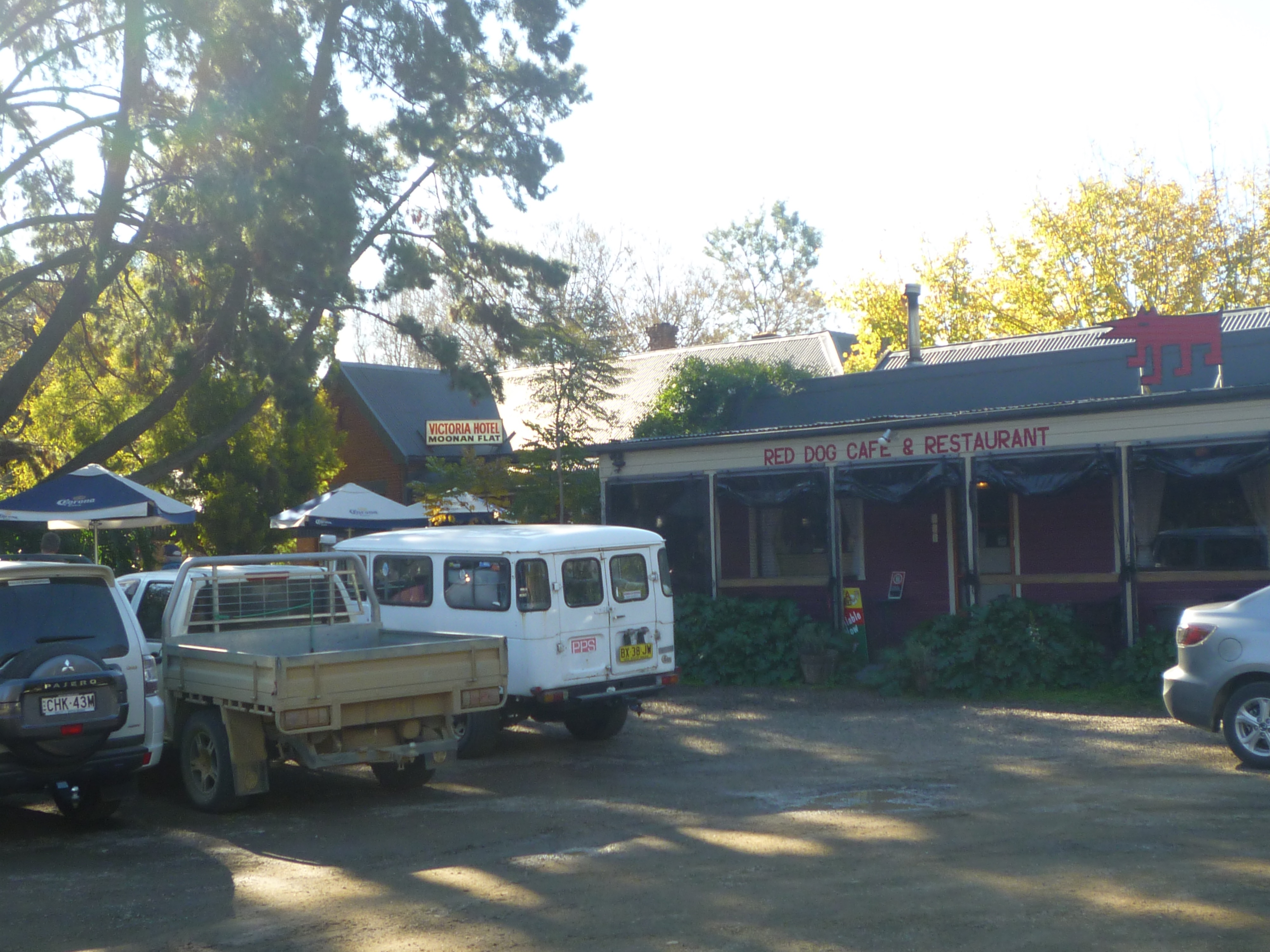 Photo of the Victoria Hotel at Moonan Flat NSW taken by me 7 June 2015.